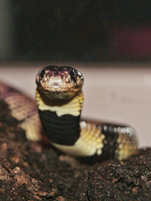 coral cobra, Aspidelaps lubricus